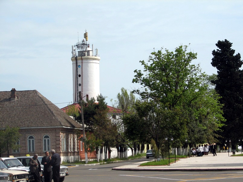 Lenkeran